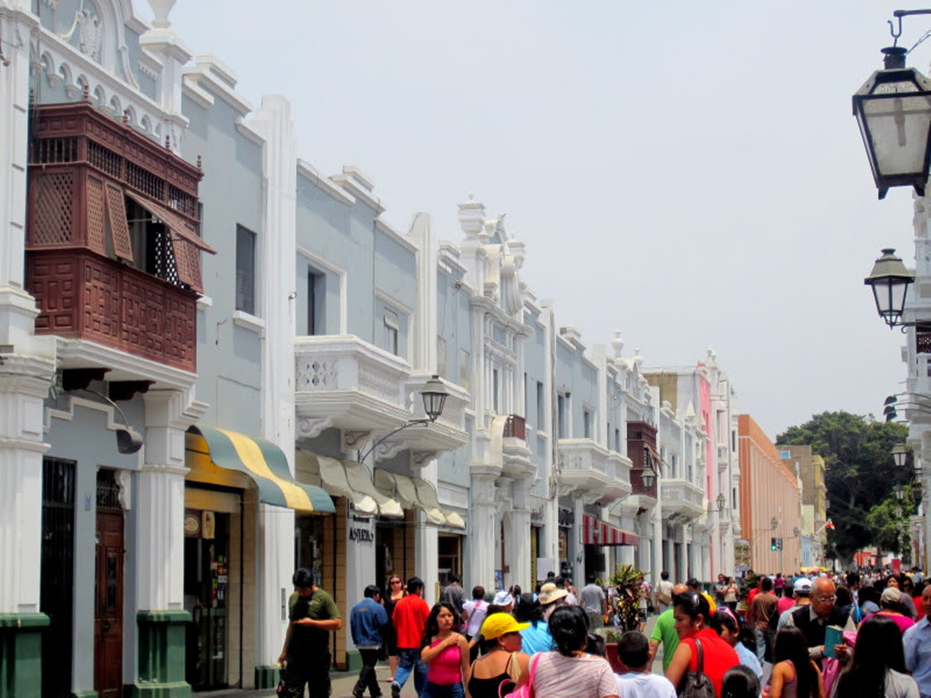 Paseo Pizarro